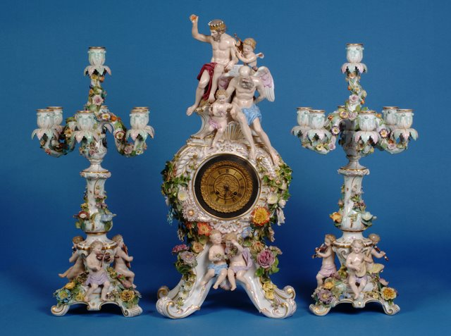 This Meissen -Porcellain of Candalbrs & clock from the 19th century is from The Porcelain Art Collection